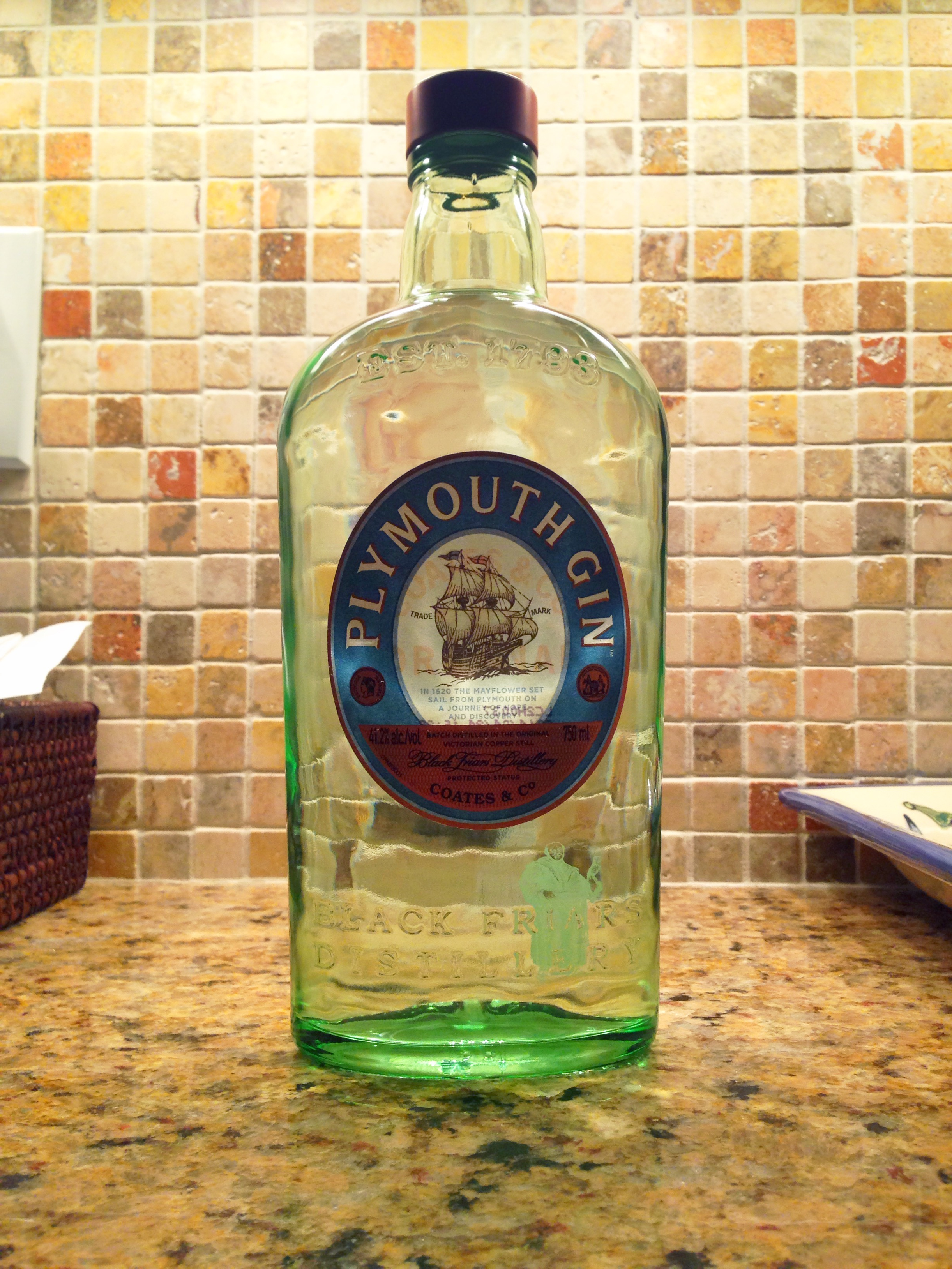 Plymouth Gin 1793 Black Friars Distillery